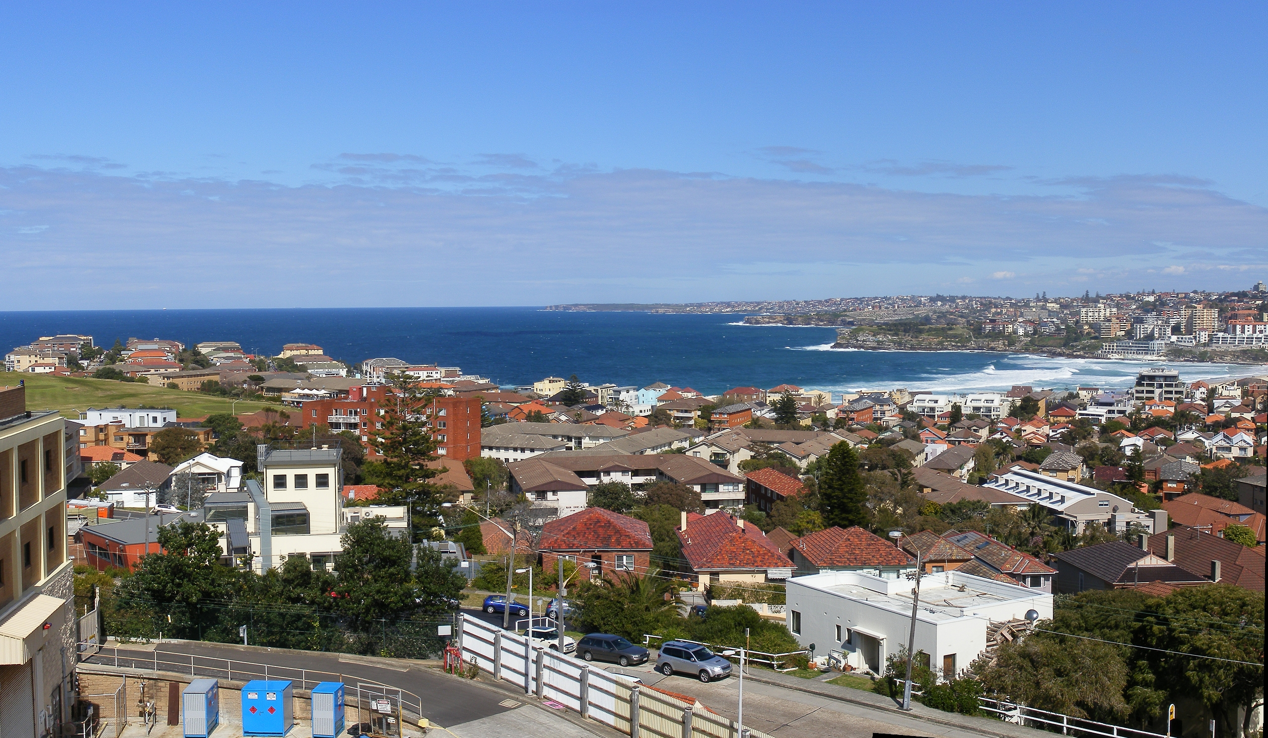 North Bondi